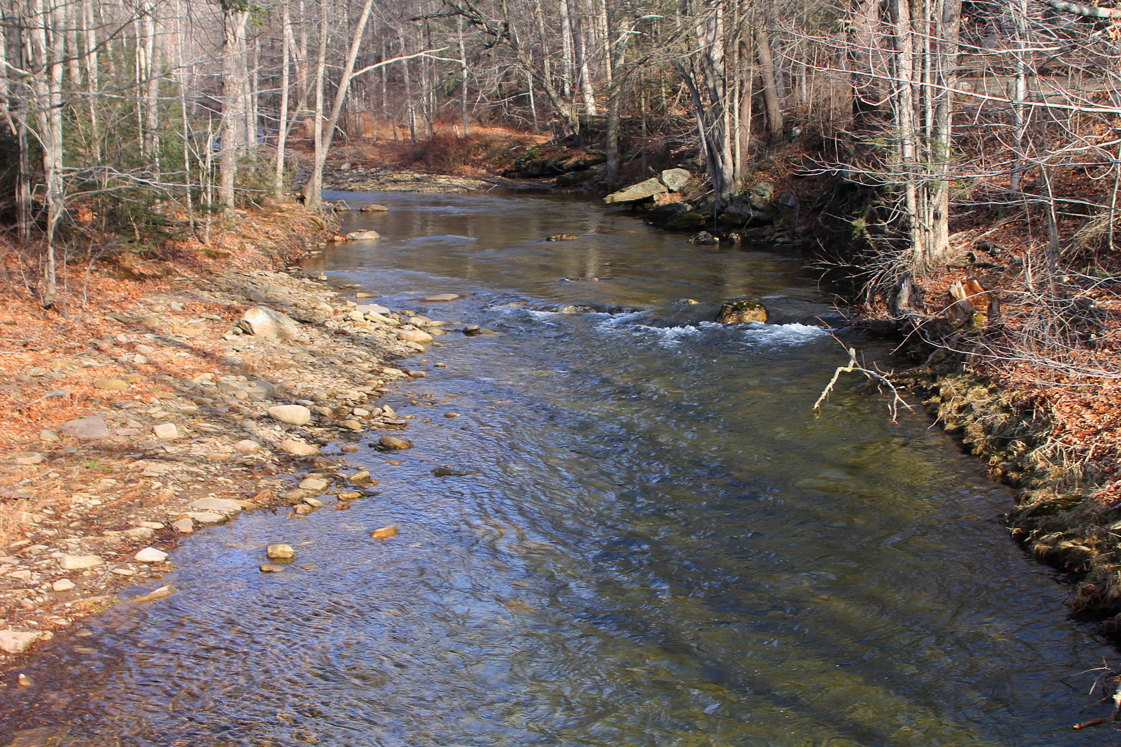 East Branch Fishing Creek looking upstream south of Jamison City in December